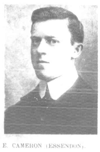 Photograph of Ernie Cameron featured in Punch Newspaper in 1907